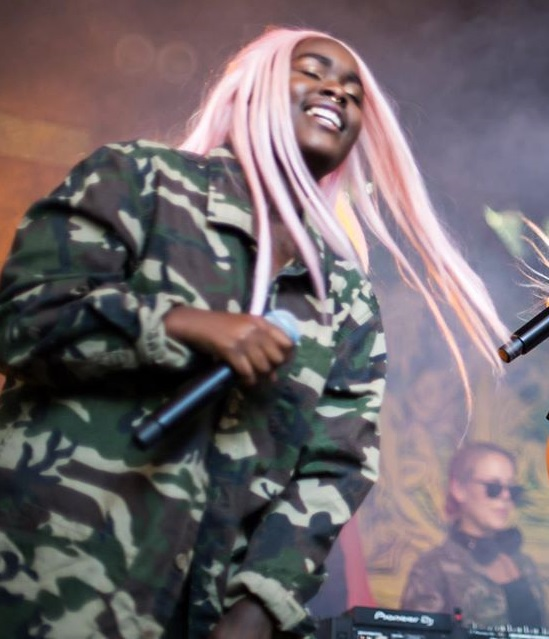 Namasenda performs in 2017